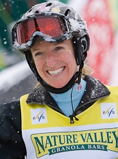 American freestyle skier Shannon Bahrke at World Cup Freestyle mogul skiing competition at The Deer Valley Resort in Park City, Utah